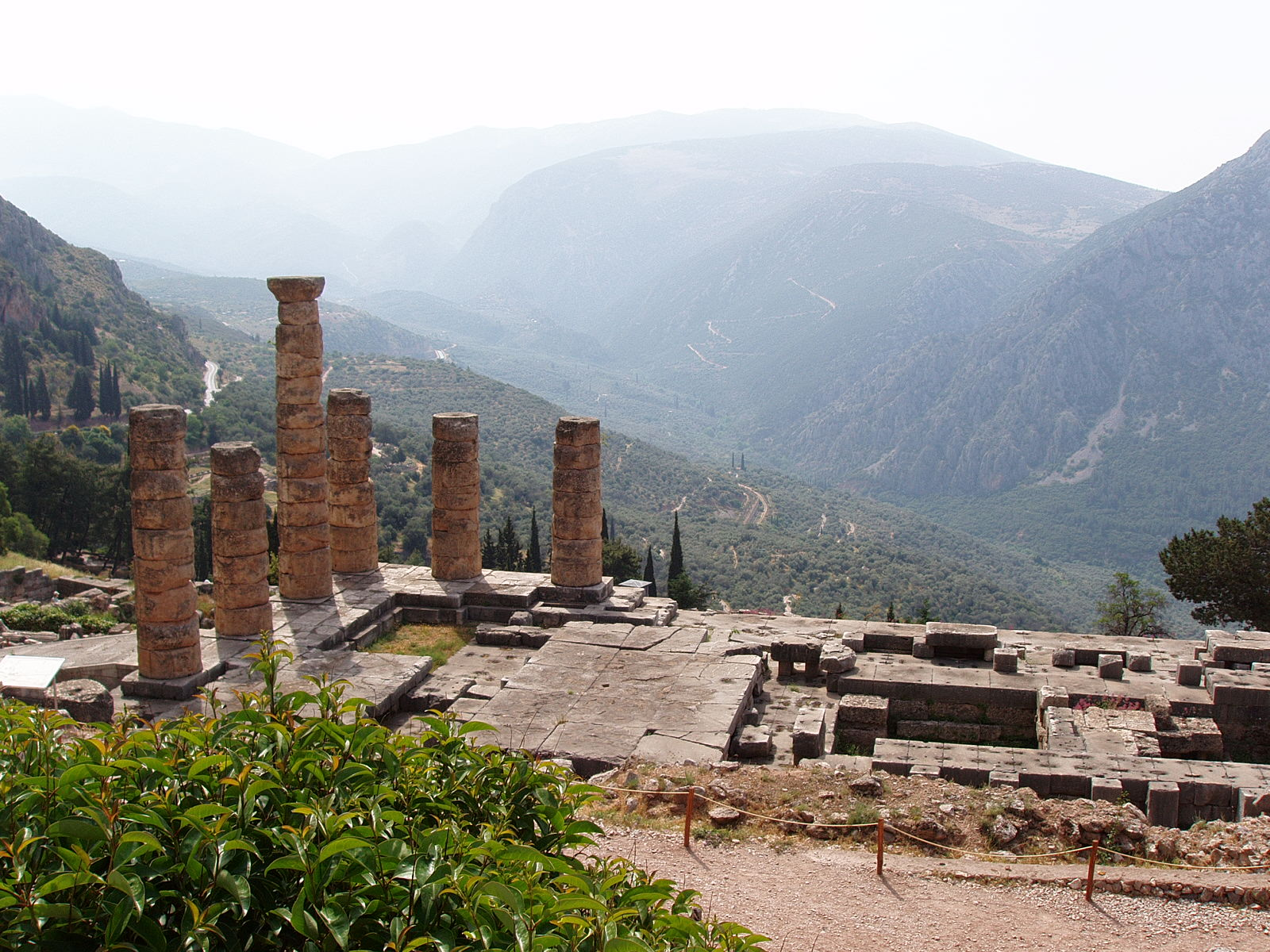 Temple of Apollo located on the slopes of Mount Parnassus near Delphi, Greece. The original location of the Delphic Oracle.